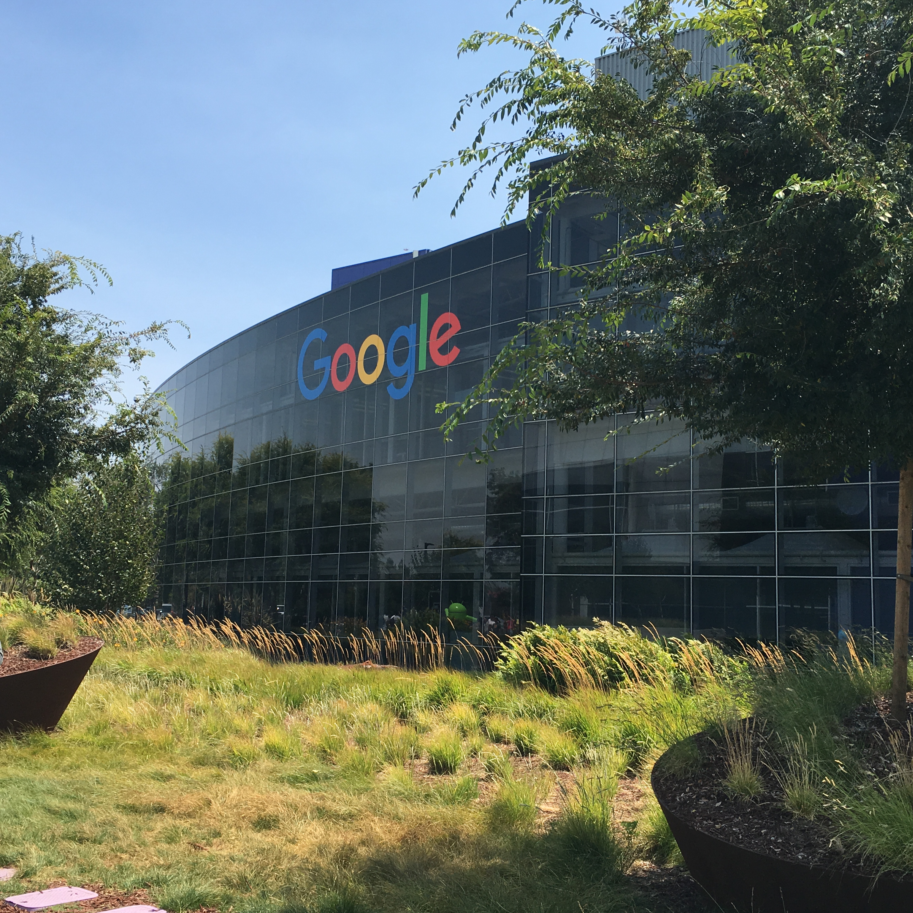 Googleplex Headquarters, San Jose, US